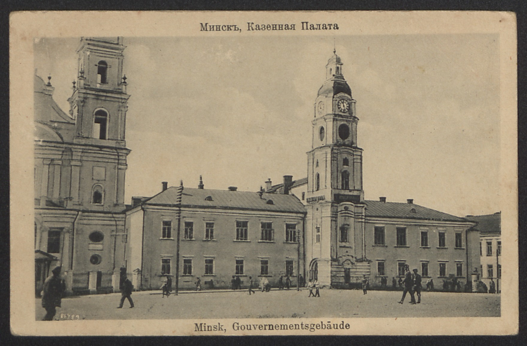 Jesuit College in Miensk, Belarus